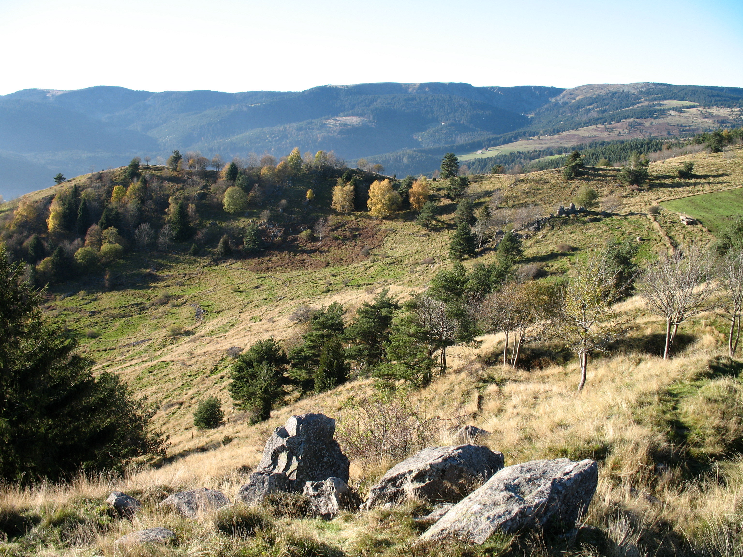 Taken at Latitude/Longitude:48.077927/7.126402 Near Soultzeren Alsace France (Map link)